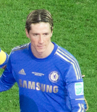 Fernando Torres. Image cropped from original at flickr.